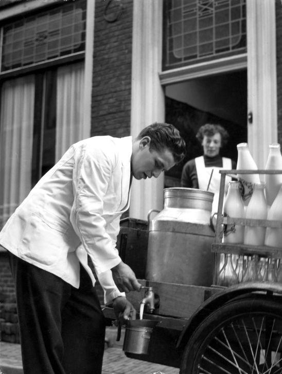 Milkman going from door to door in the streets. The Netherlands, 1956.